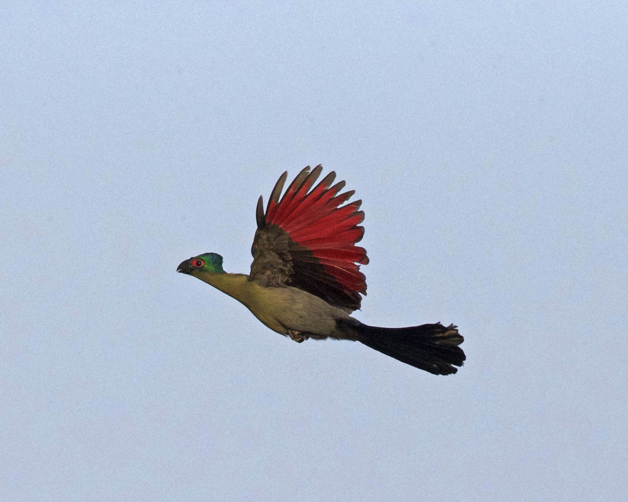 Purple-crested Turaco Gallirex porphyreolophus Gallirex porphyreolophus chlorochlamys Liwonde, Malawi 20th. October 2015 CF2P0035